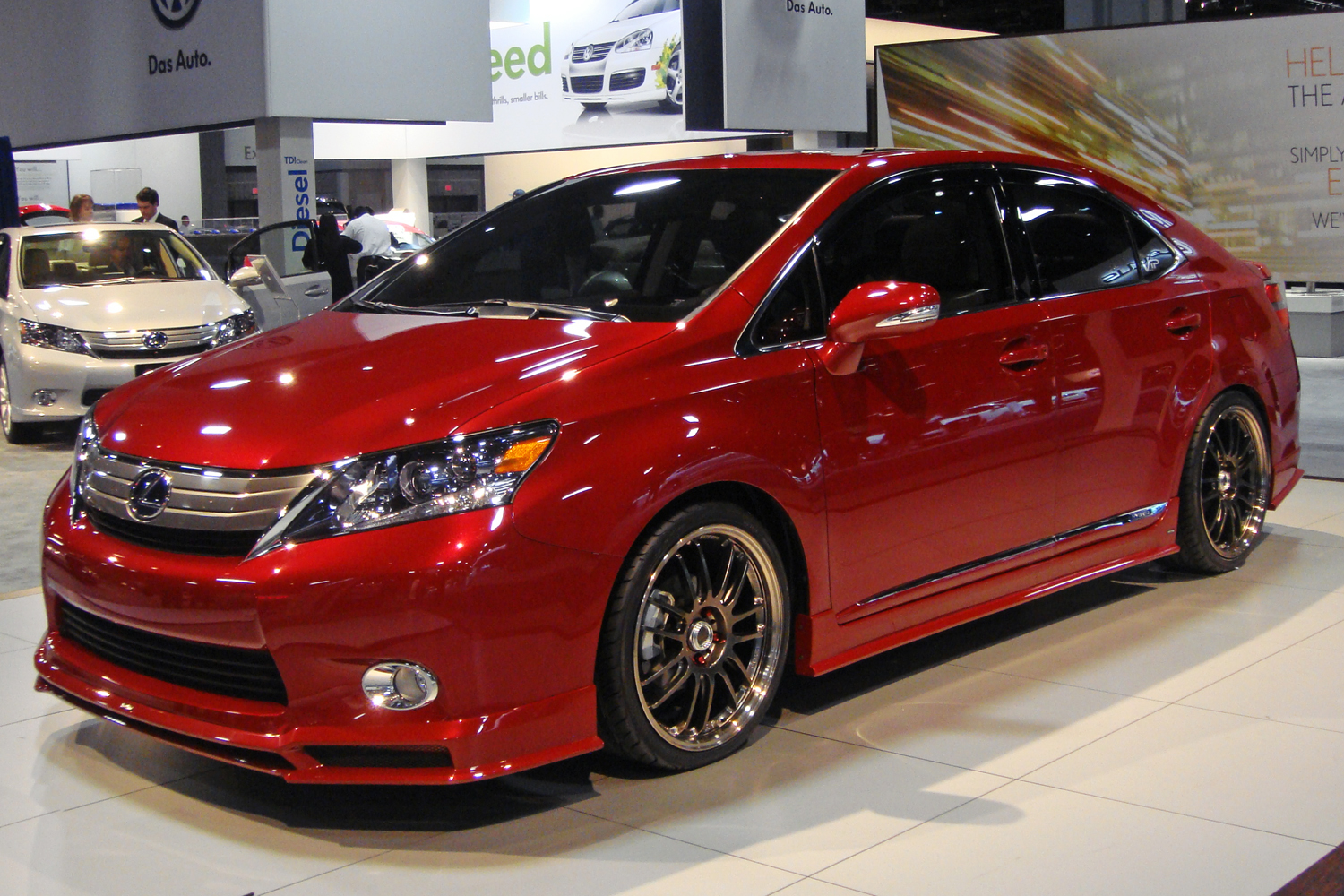 2010 Lexus HS 250h Hybrid at the 2010 Washington Auto Show